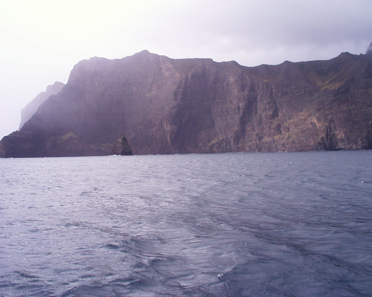 Cliffs of Juan Fernández Island